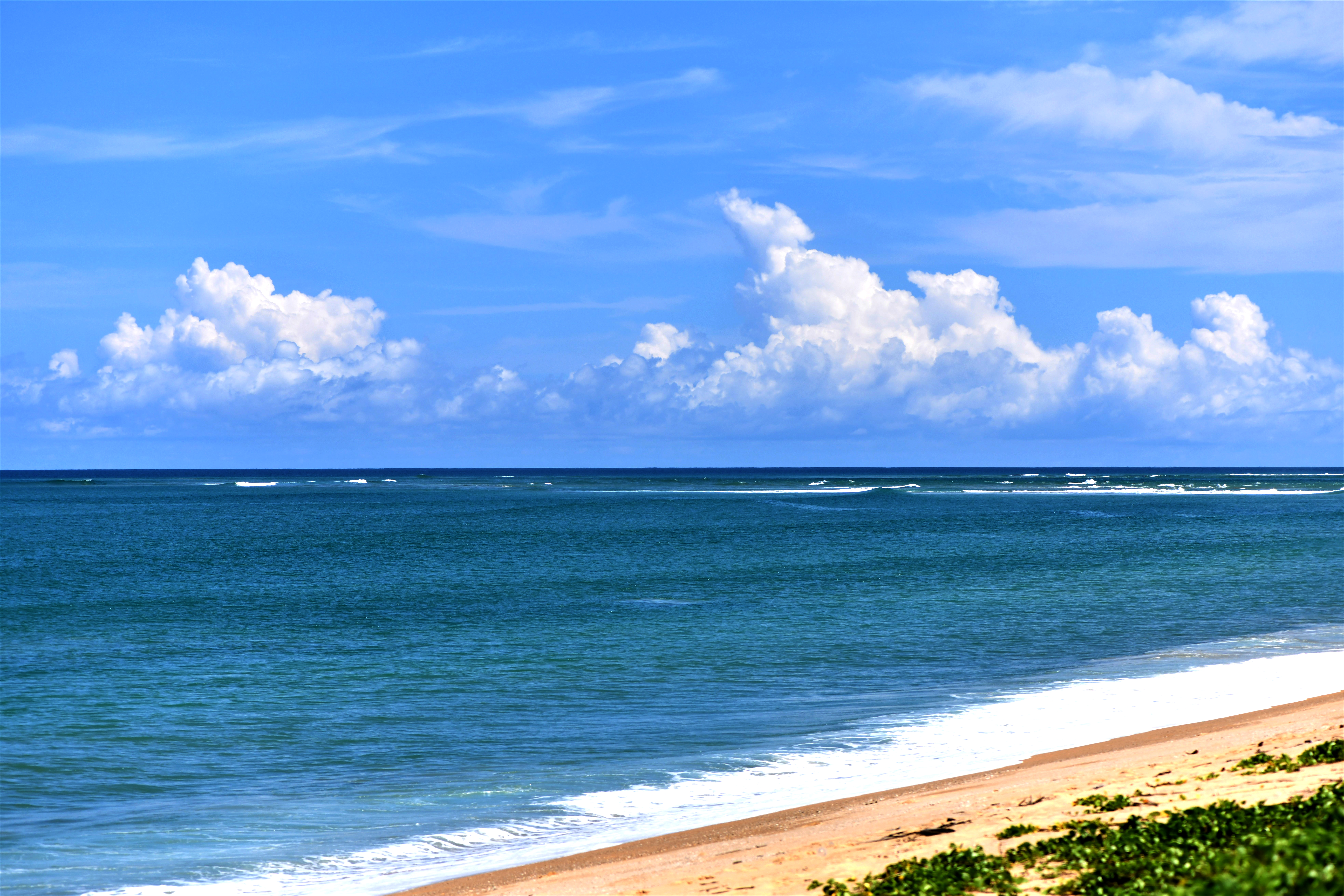 Thai marine charm Khao Lam Nam National Park - Thai Mueang Beach อุทยานแห่งชาติเขาลำปี-หาดท้ายเหมือง